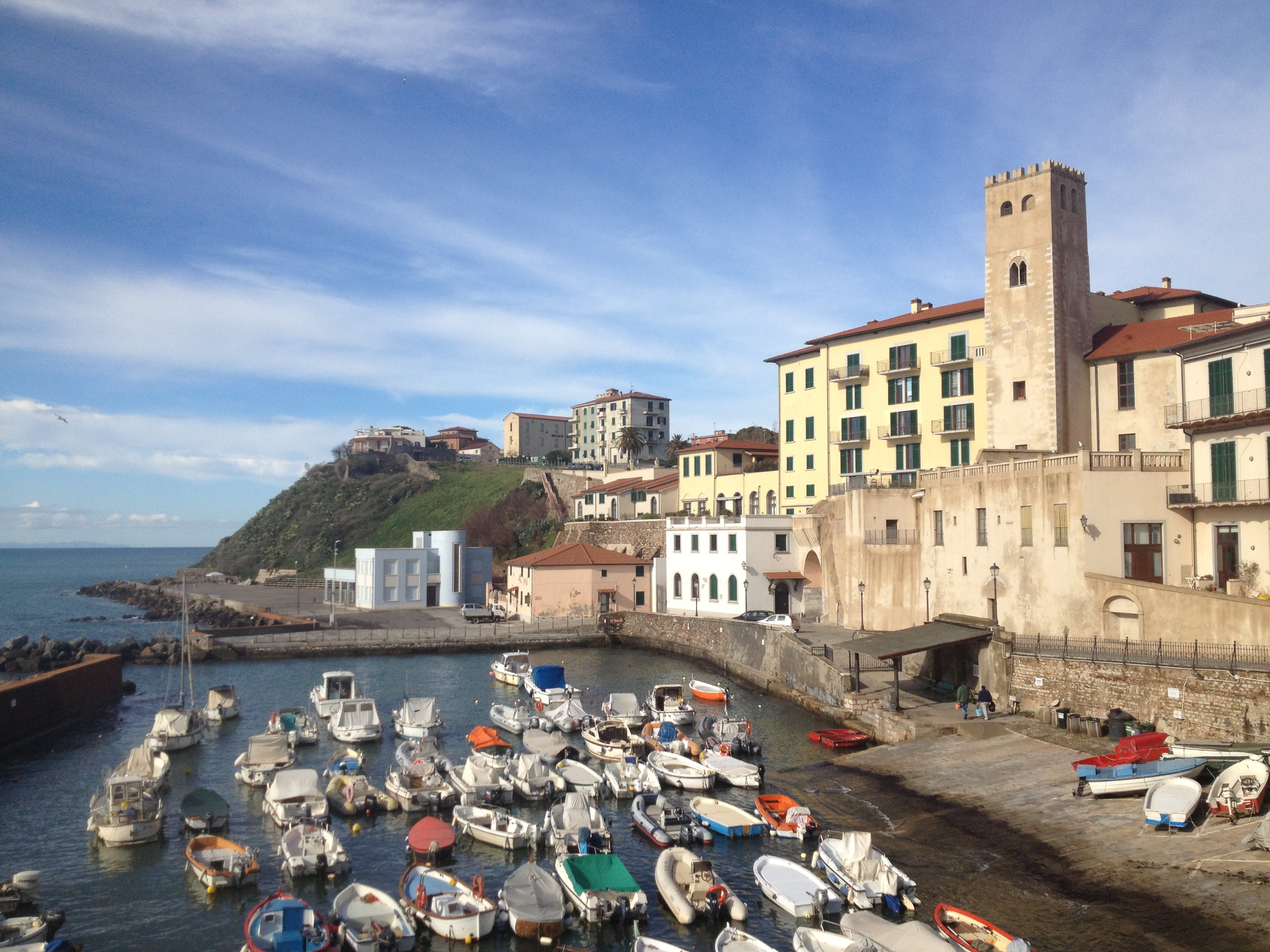 57025 Piombino, Province of Livorno, Italy